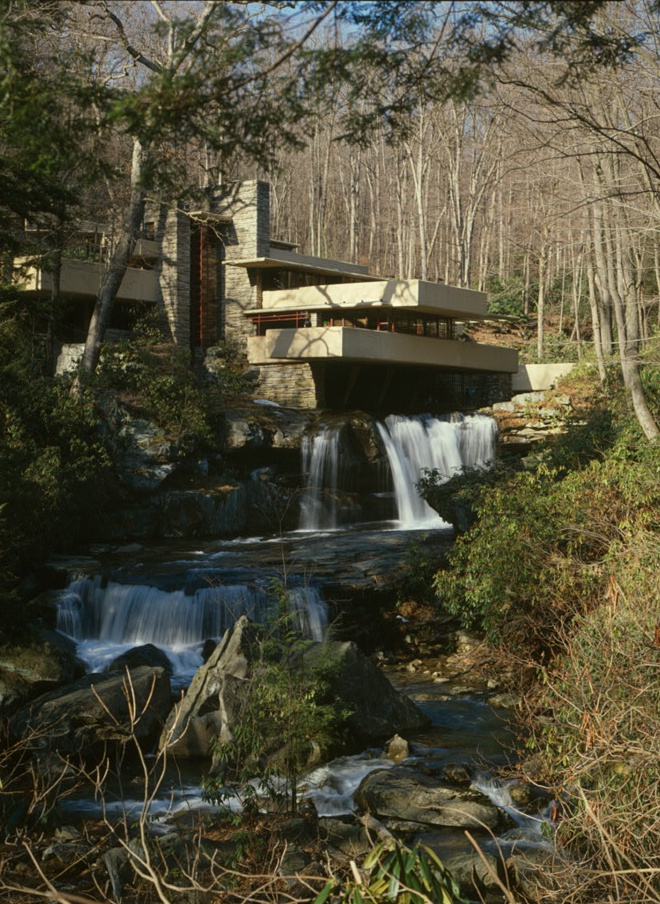 Fallingwater, Building 1935-37 by Frank Llyod Wright, for Edgar J. Kaufmann, near Ohiopyle, Fayette County, Pennsylvania, USA - View from southwest of house as seen from downstream